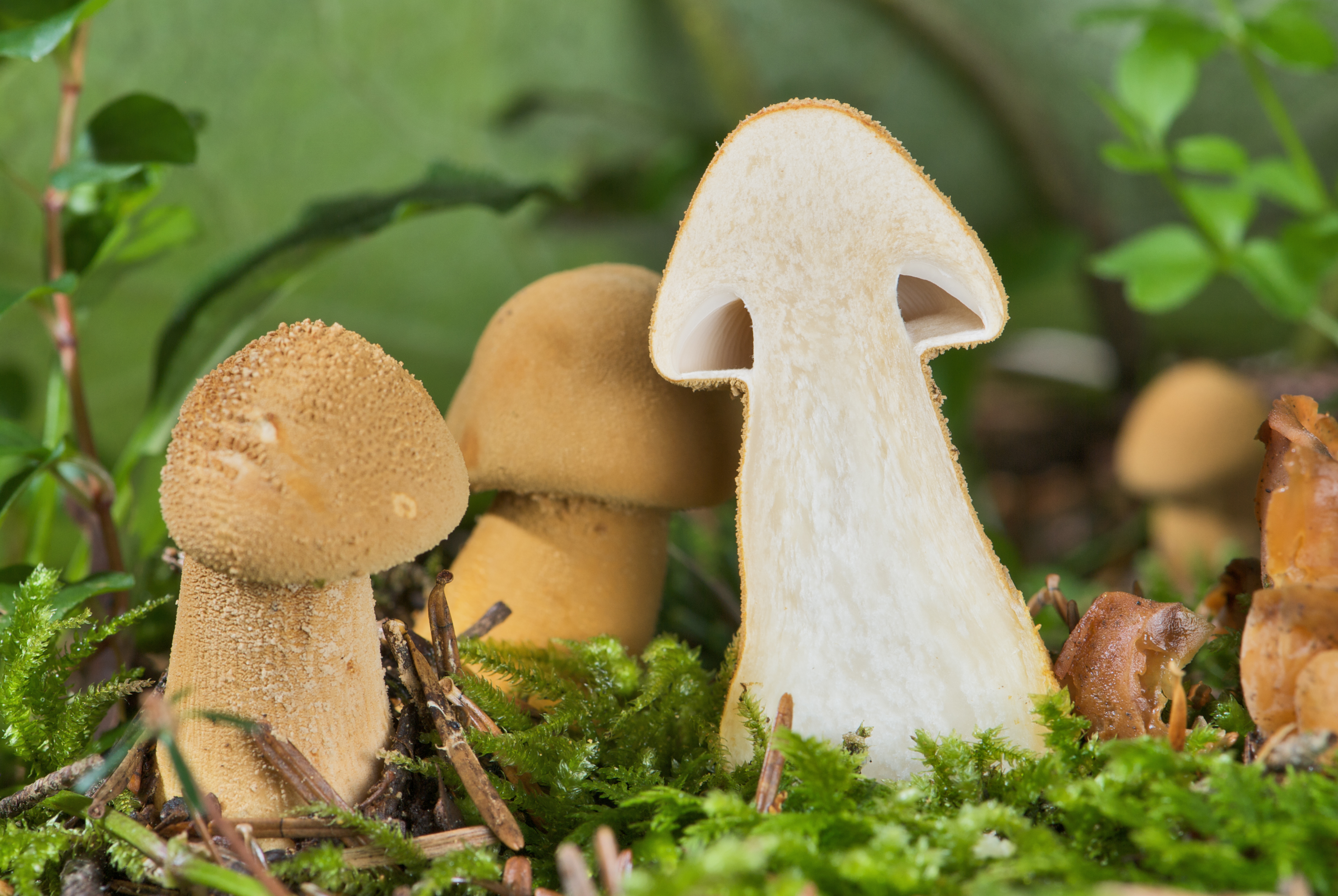 The golden bootleg or golden cap mushroom (Phaeolepiota aurea) can be found throughout Eurasia and North America. In Europe it is considered a rare species. The specimen in the picture are in the early stage of the fruit body's growth (about 5 days in age). Their caps are still connected to the stipes and the largest specimen in the picture (the one to the right) measures about 530 mm in height. It was also cut apart to expose to expose the connection between cap and stipe.